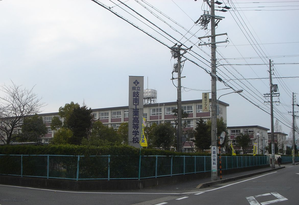 Ginan Techinical High School（岐阜県立岐南工業高等学校）,Gifu,Gifu(岐阜県岐阜市)で撮影